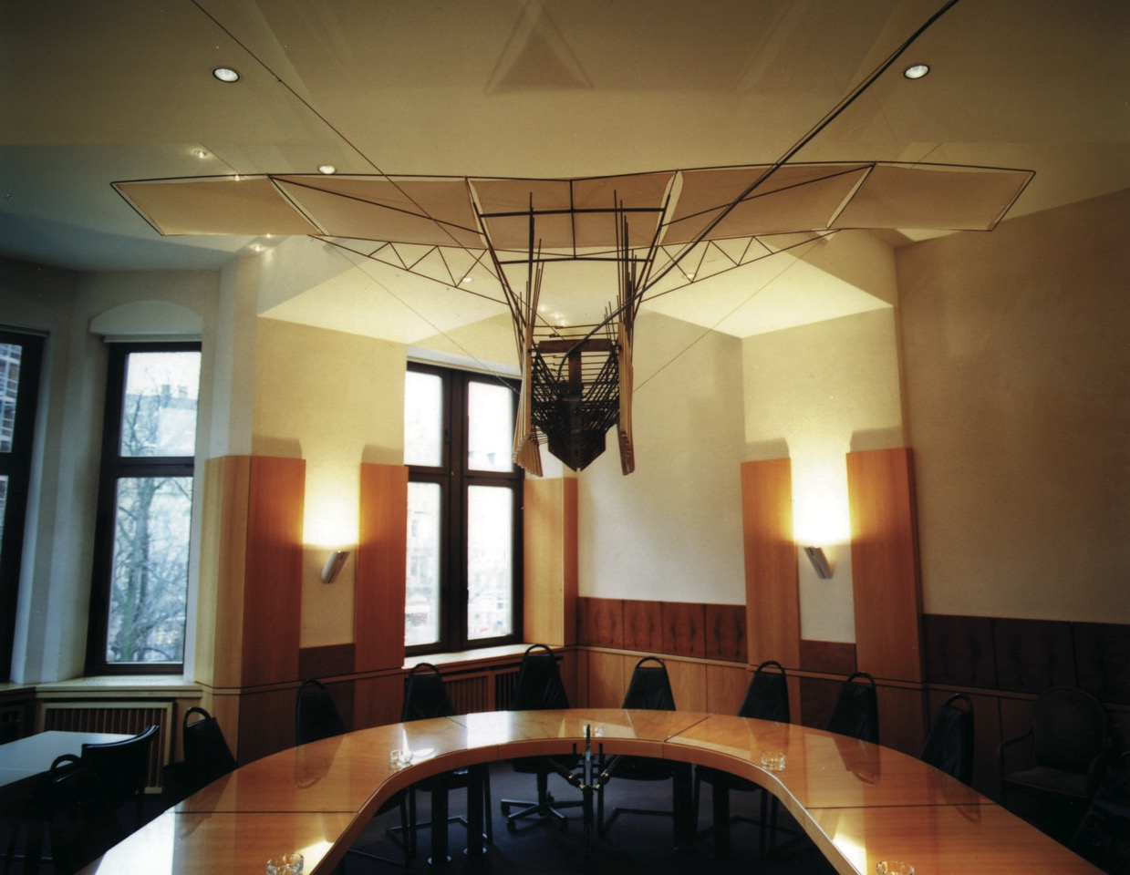 Flying Object, Design of the Municipal Conference Room, City Hall of the State Capital, Wiesbaden/Germany